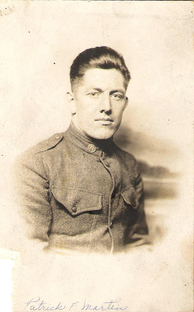 Family photo. Pat Martin is my grandfather.